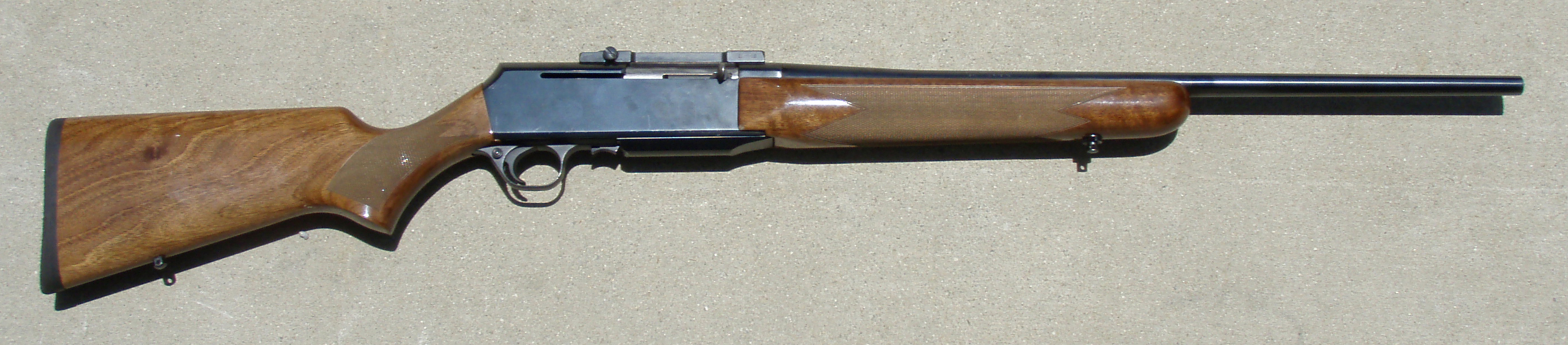 Browing BAR Rifle in .30-06 Caliber, made in Belgium